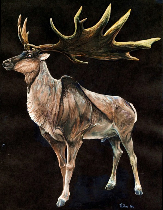 Life reconstruction of the extinct giant deer, genus Megaloceros